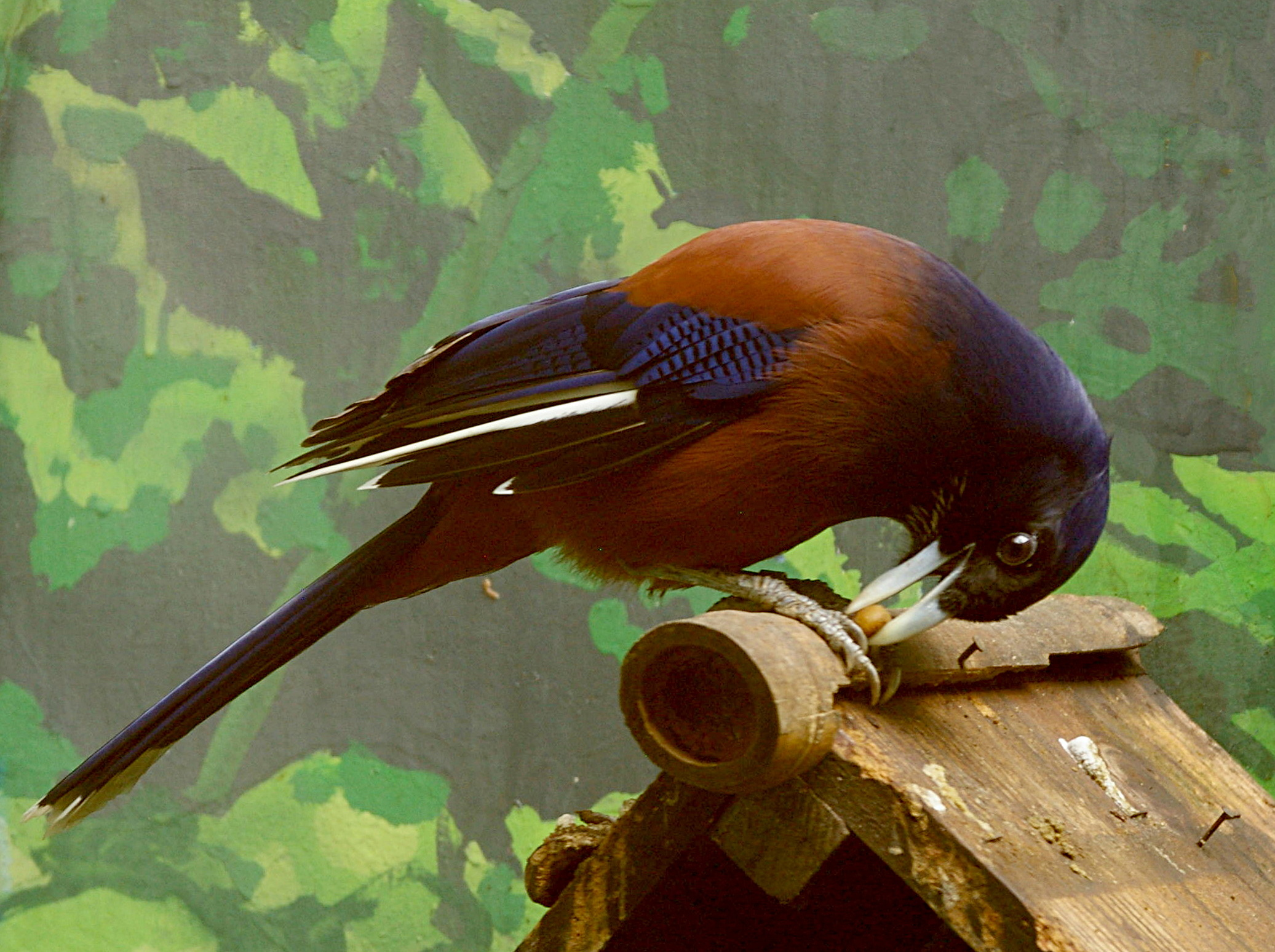 Garrulus lidthi, Ueno Zoo